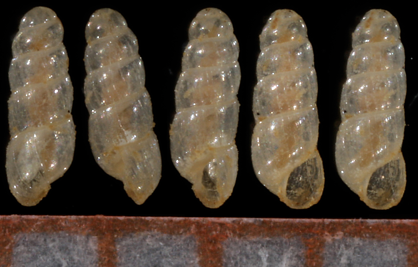 Acicula parcelineata (Clessin, 1911), Aciculidae, Architaenioglossa, Gastropoda, near Dukla, Poland